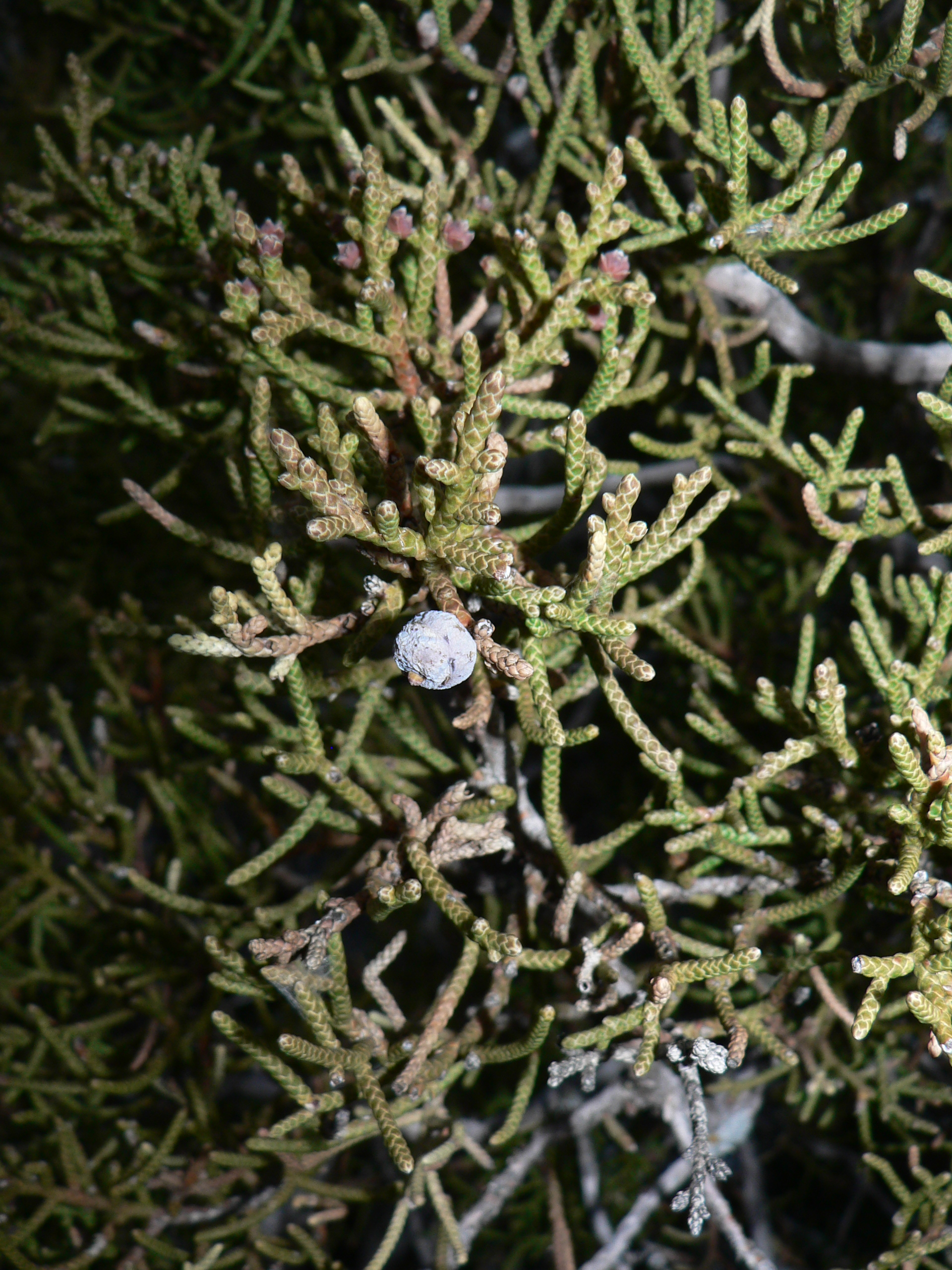 California Juniper